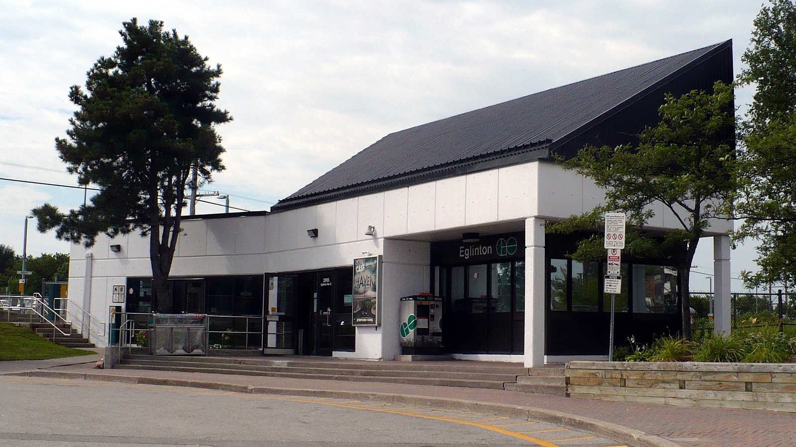 Eglinton GO Station at Eglinton Ave and Cedar Brae in Toronto